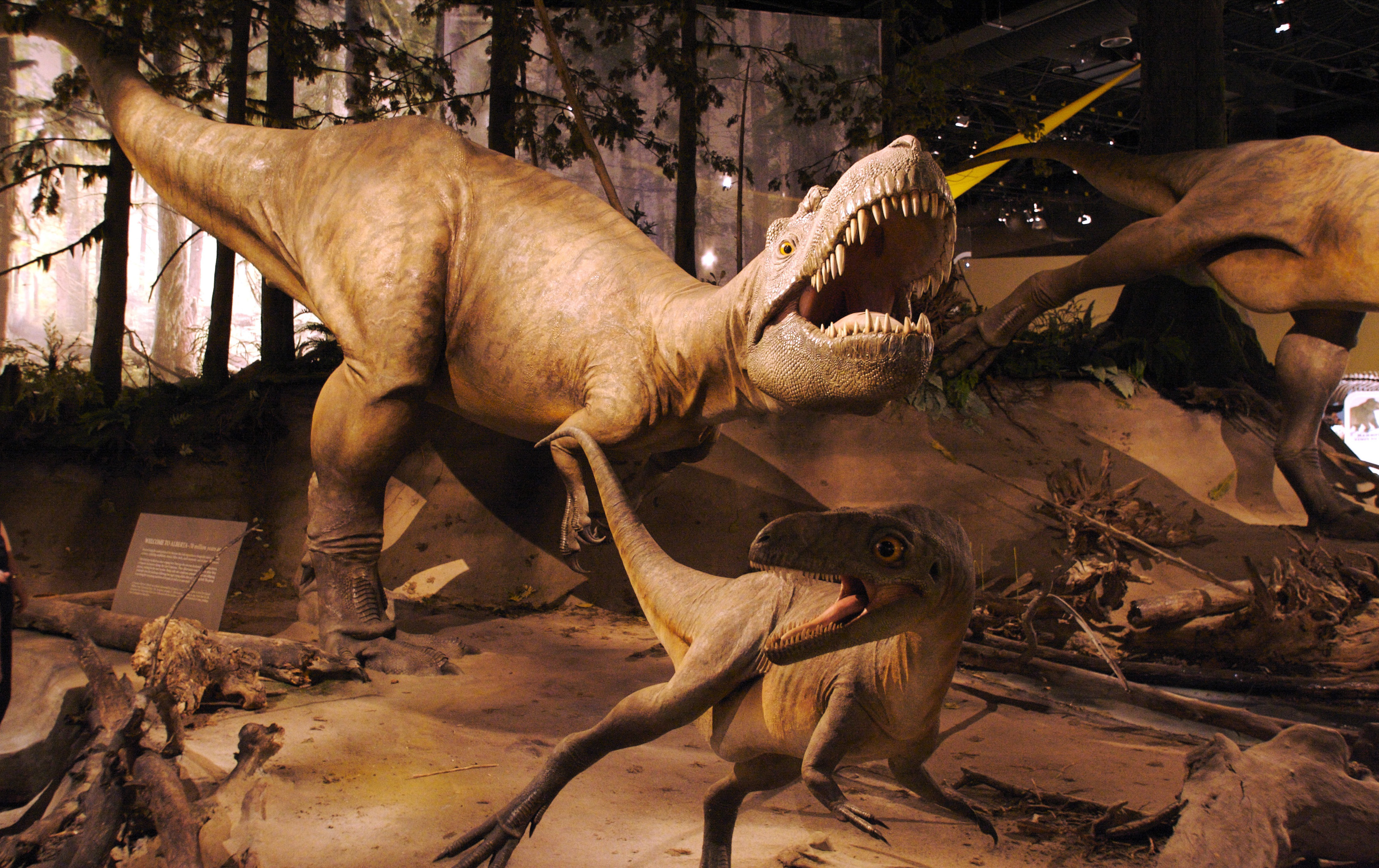 Albertosaurus models, Royal Tyrell Museum. this is what greets you on entering the exhibit.